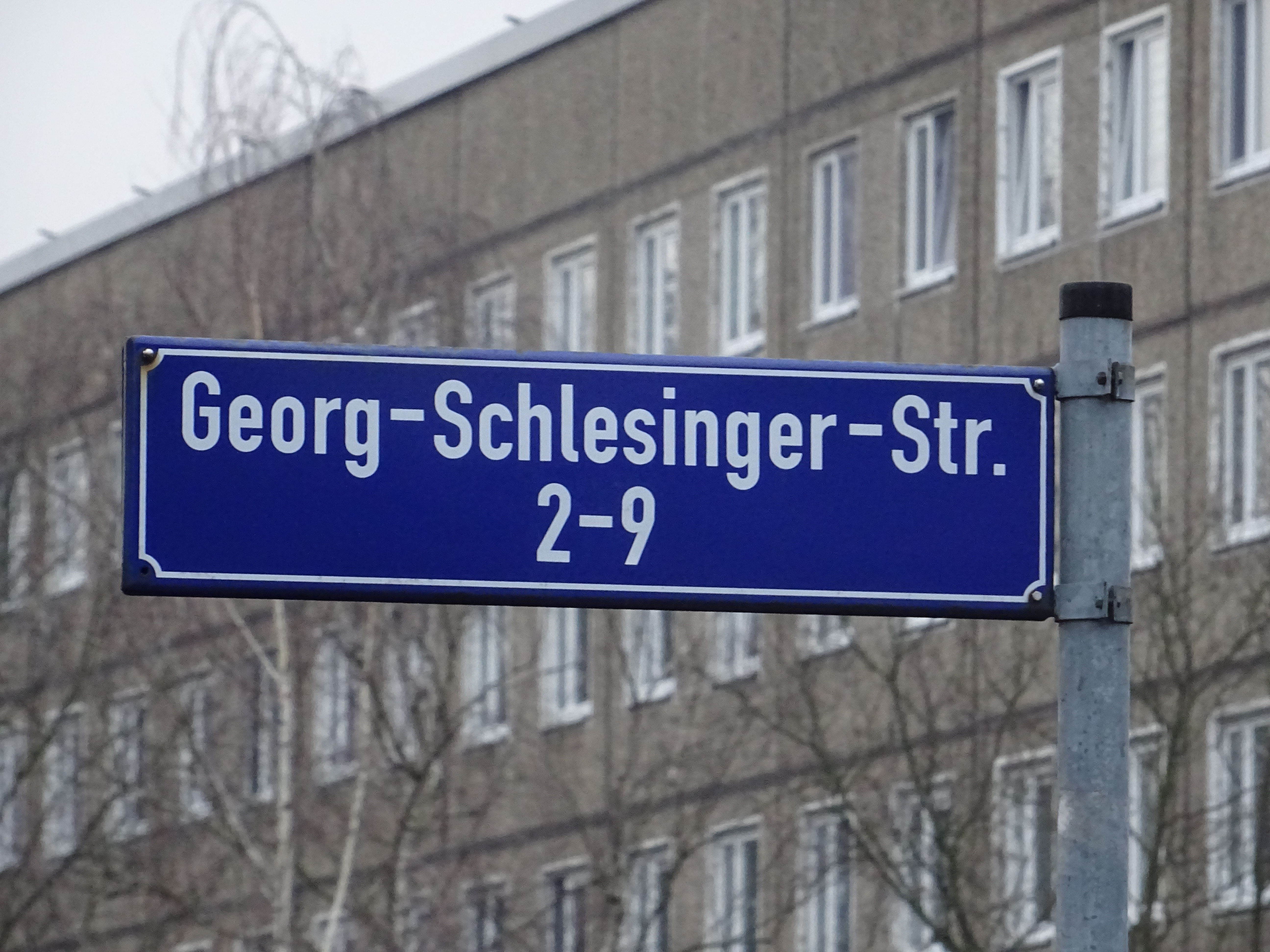 Street sign of Georg-Schlesinger-Straße in Cottbus